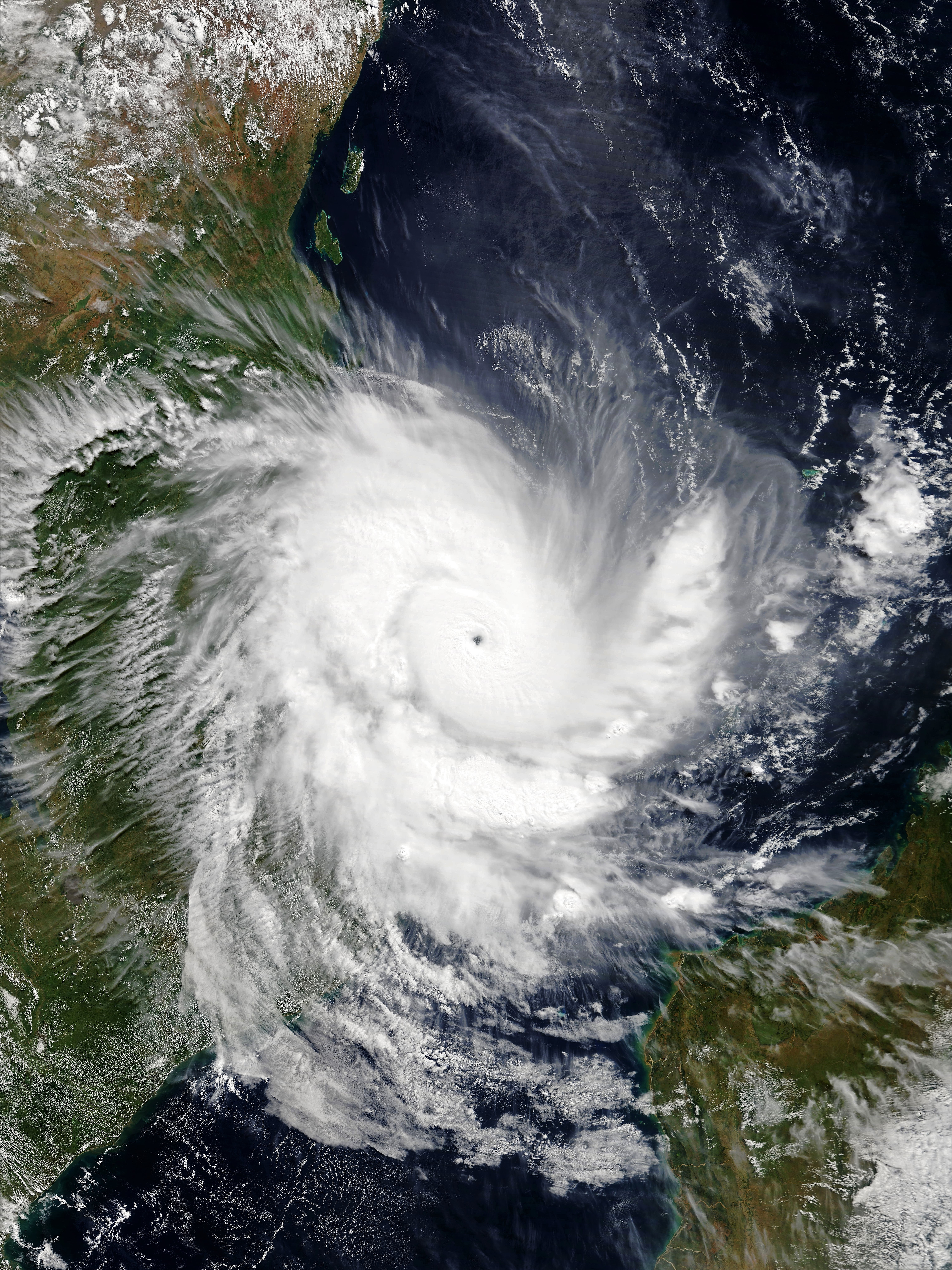 Intense Tropical Cyclone Kenneth approaching the Cabo Delgado province of Mozambique at peak intensity on 25 April 2019.